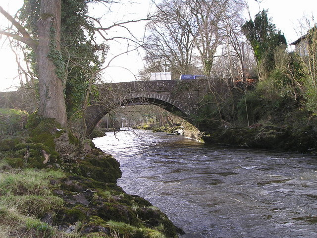 Llandysul Bridge, near to Llandysul, Ceredigion/Sir Ceredigion, Great Britain. The River Teifi flowing swiftly under the road bridge.